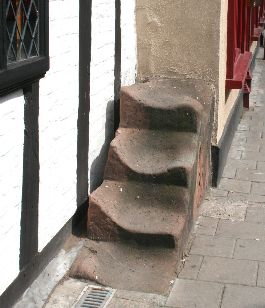 Mounting block, by 26–30 Welsh Row, Nantwich, Cheshire